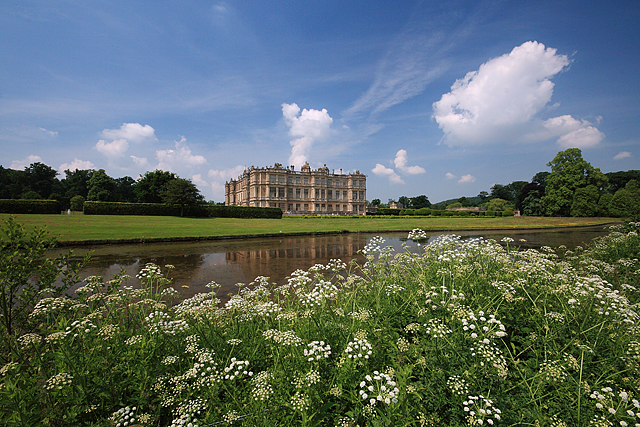 Longleat House (3) View looking west across the lake.